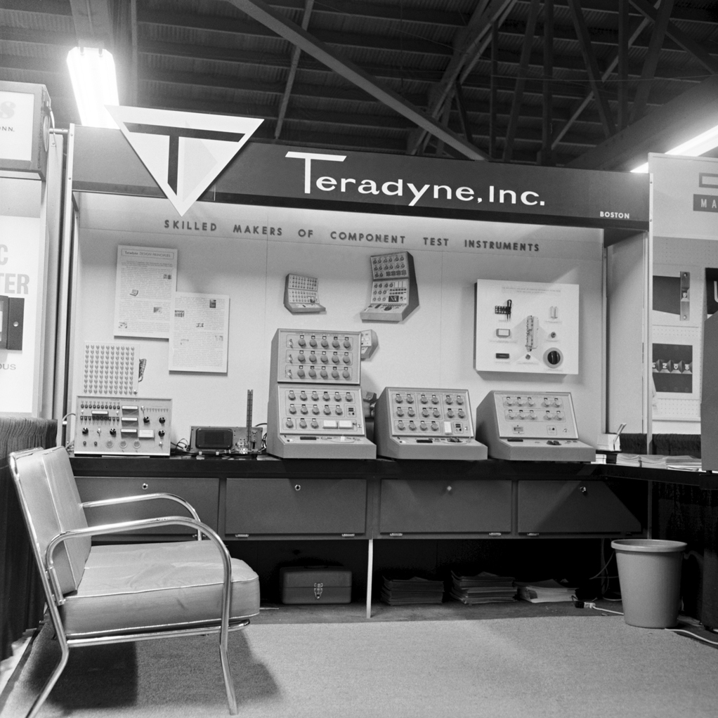 Teradyne trade show display, 1963